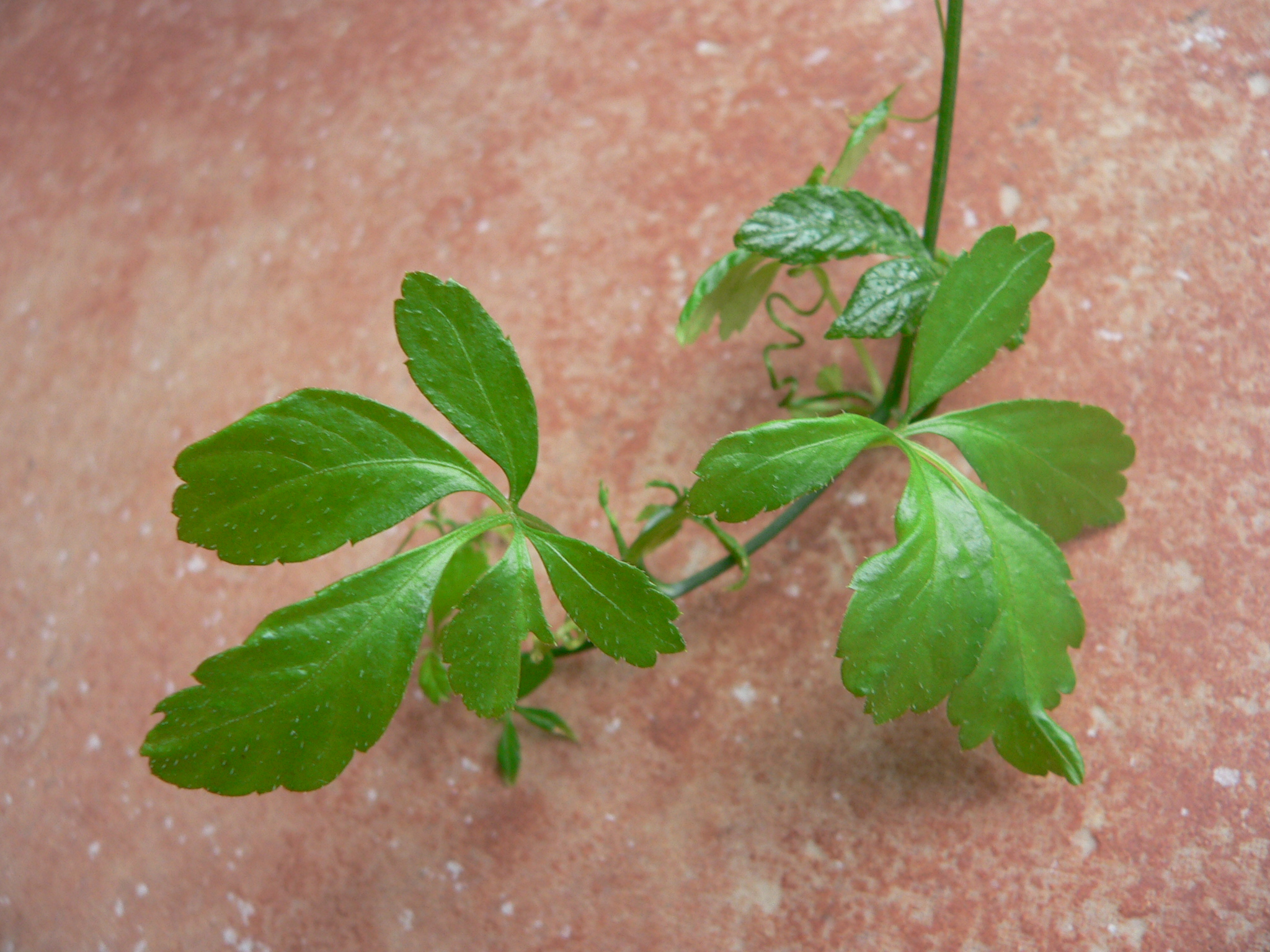 Baby jiaogulan plants